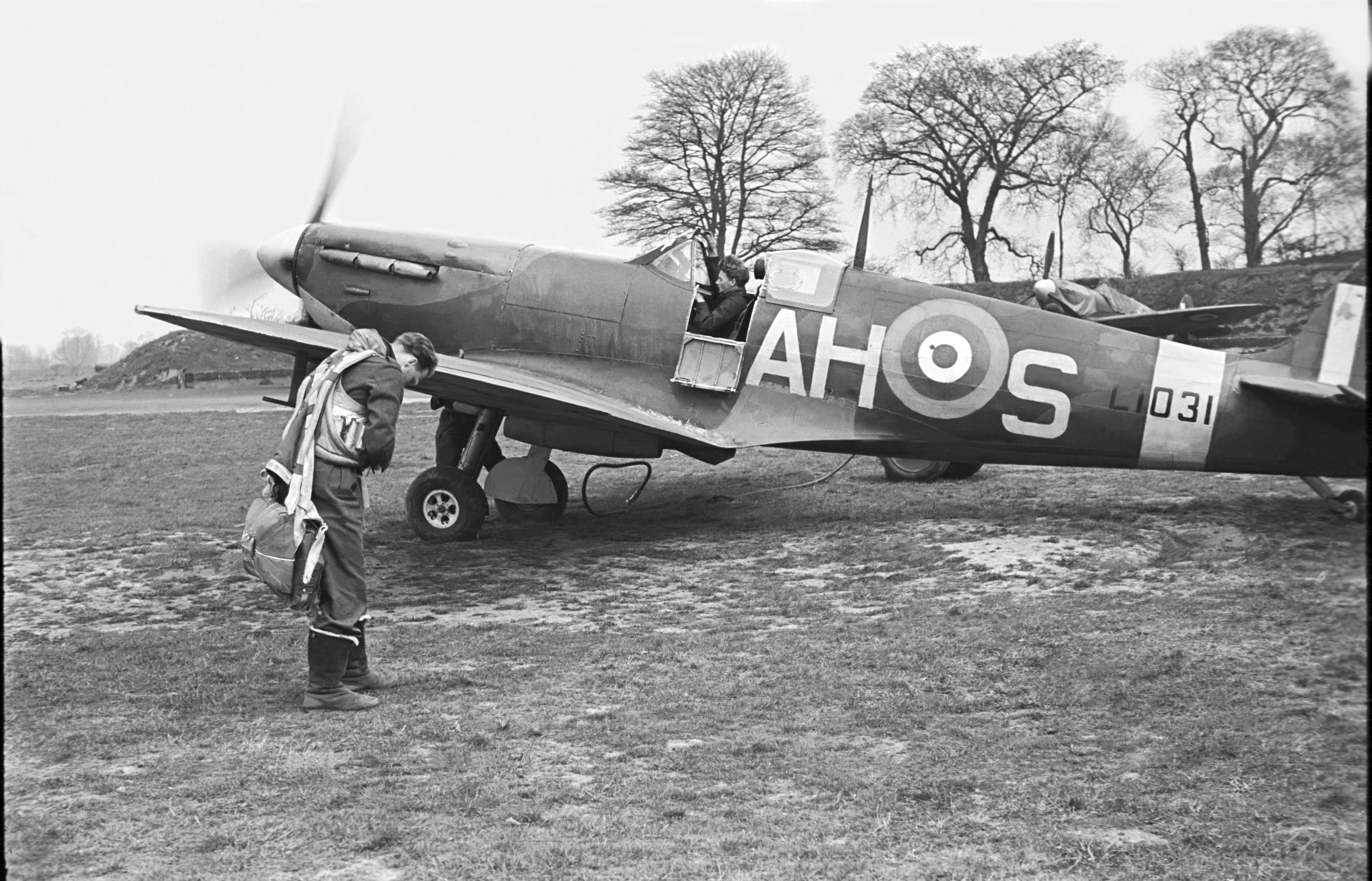 Flyveren fenrik Erik Haabjørn ved 332 Skvadrons B-Flightspenner på seg fallskjermen før start med Spitfire Mk. AH-S/L1031 fra B-Flights område av flystasjonen Catterick i Yorkshire om ettermiddagen 21. april 1942.